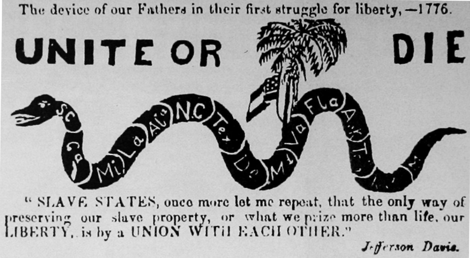 Modification of Franklin's famous "Join, or Die" cartoon by G.W. Falen for the propaganda of slave states during the American Civil War.